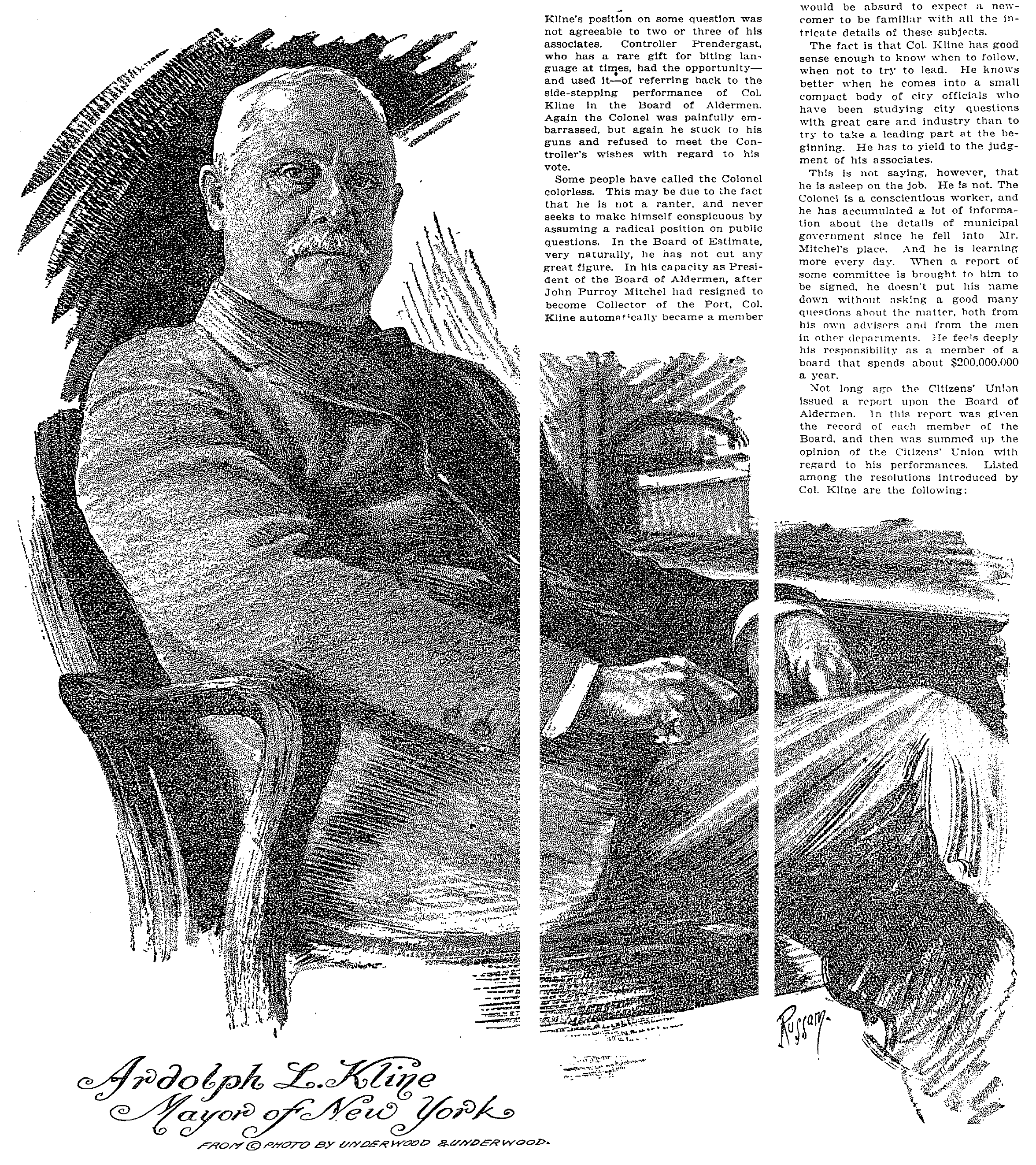 Ardolph Loges Kline, Mayor of New York City from September to December 1913 (black and white newspaper engraving taken from photograph)